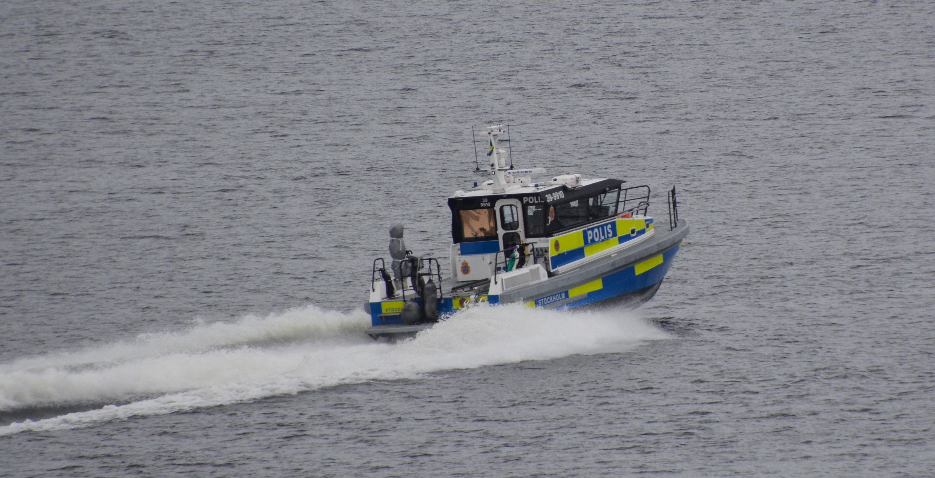 Stockholm Police Boat 9910 Swede Marine